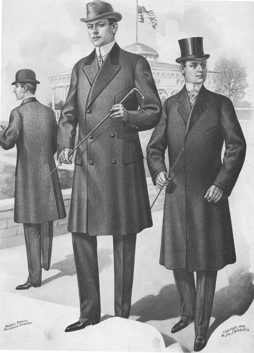 A 1901 fashion plate of a Chesterfield overcoat.